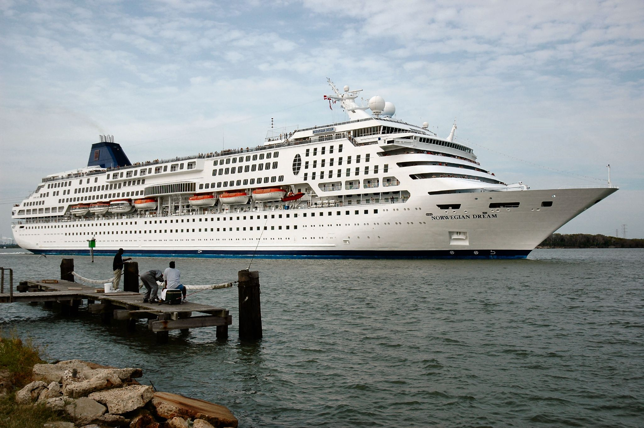 Author: DSC_0107; Source: Flickr URL